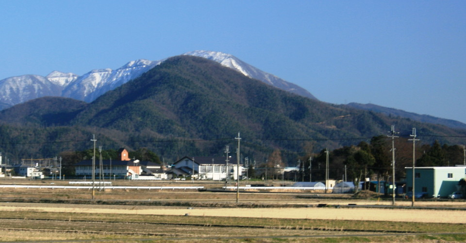 Odaniyama (Mount Odani) seen from the WNW.